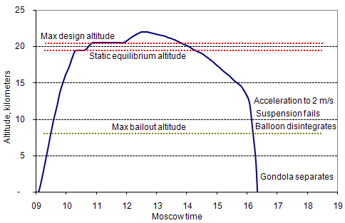 Flight profile of Osoaviakhim-1 on January 30, 1934